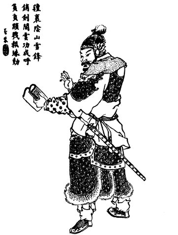 A Qing dynasty portrait of Deng Ai